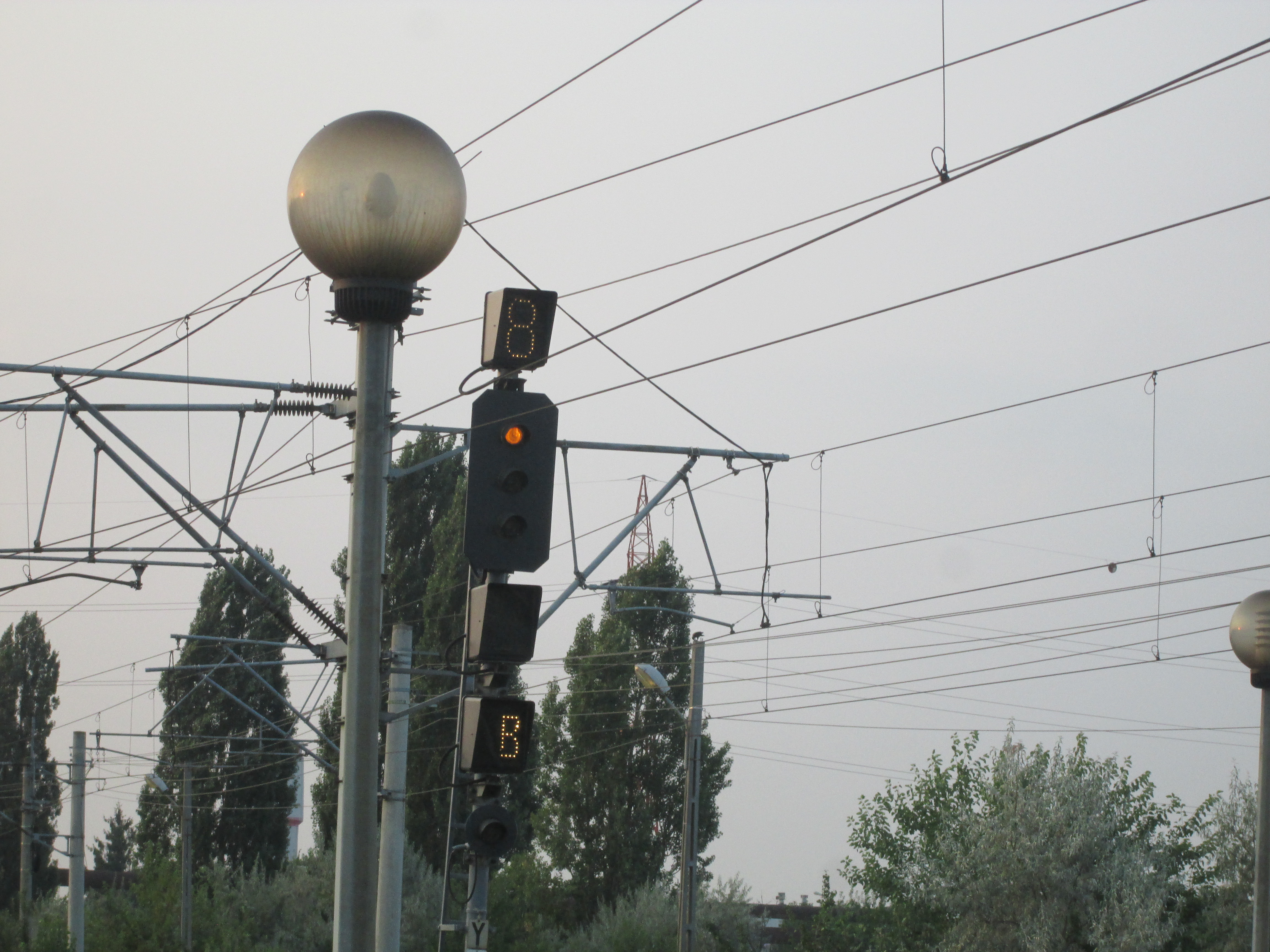 Romanian Railways signal in Ploiesti Vest railway station